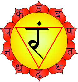 Illustration of Manipura Chakra. This diagram shows the seed sound of the chakra, ram, and the ten Sanskrit letters on the petals, dda, ddha, nna, ta, tha, da, dha, na, pa, pha. The tattwa for the element of Fire is shown in outline as a red triangle. The colour scheme was chosen to reflect this chakra's assosciation with the colours yellow and red.